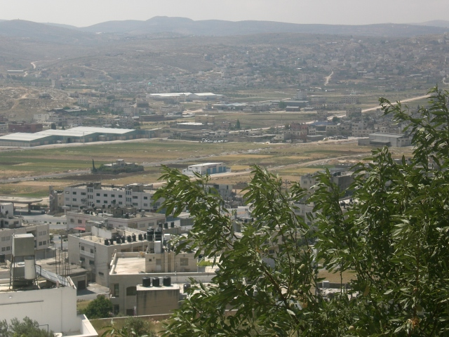 صورة لعسكر بلد